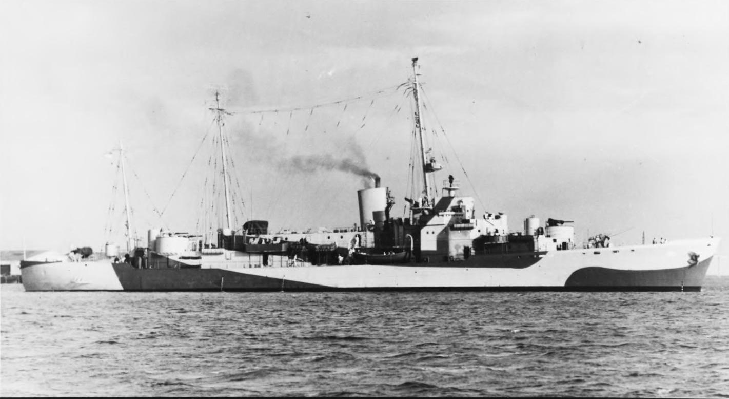 U.S.C.G.C. INGHAM at the U.S. Navy Yard, South Carolina on 11 October 1944. Starboard broadside view. Cropped in 2008 to remove border including text label.